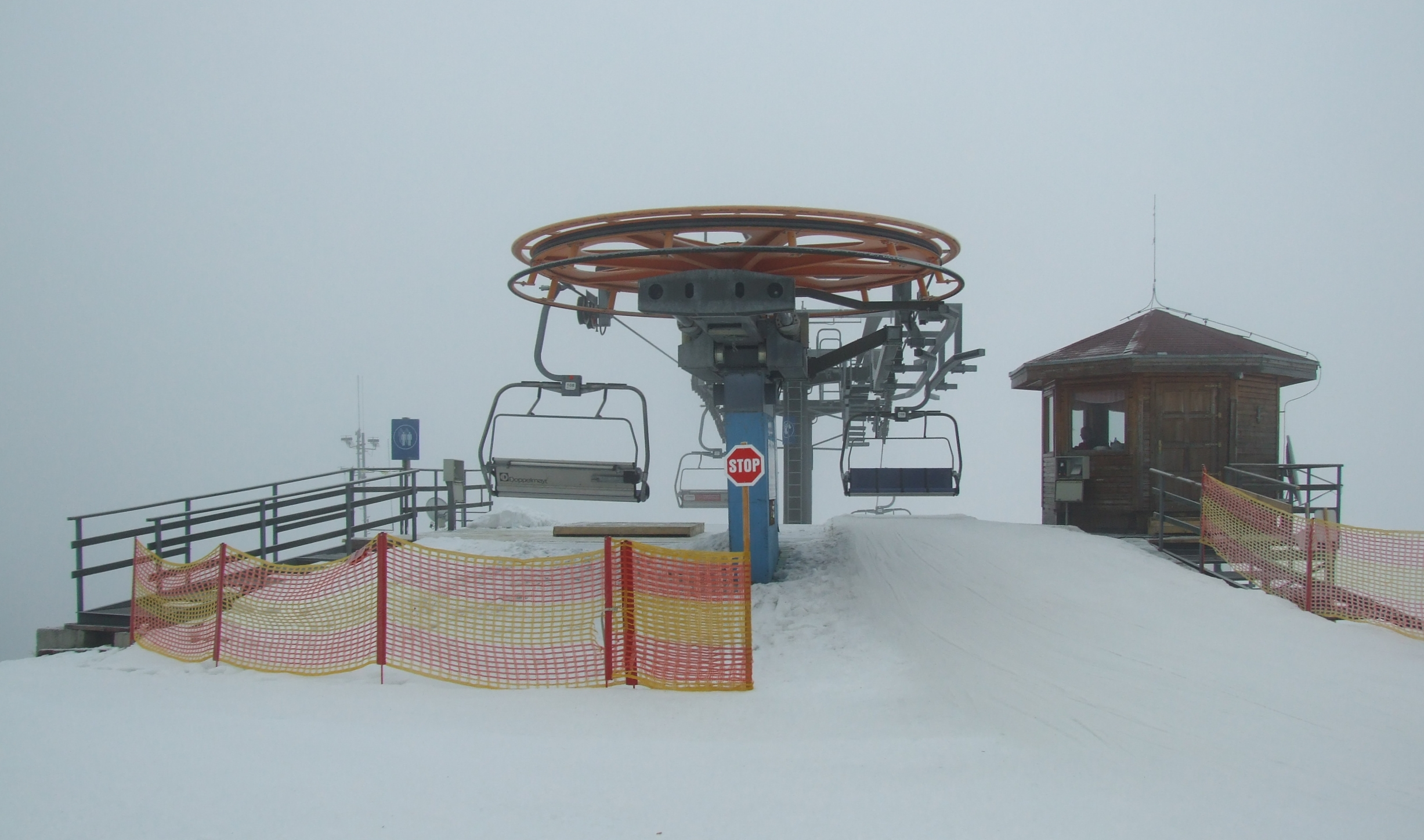 Ski Park Ružomberok - final station of the chairlift